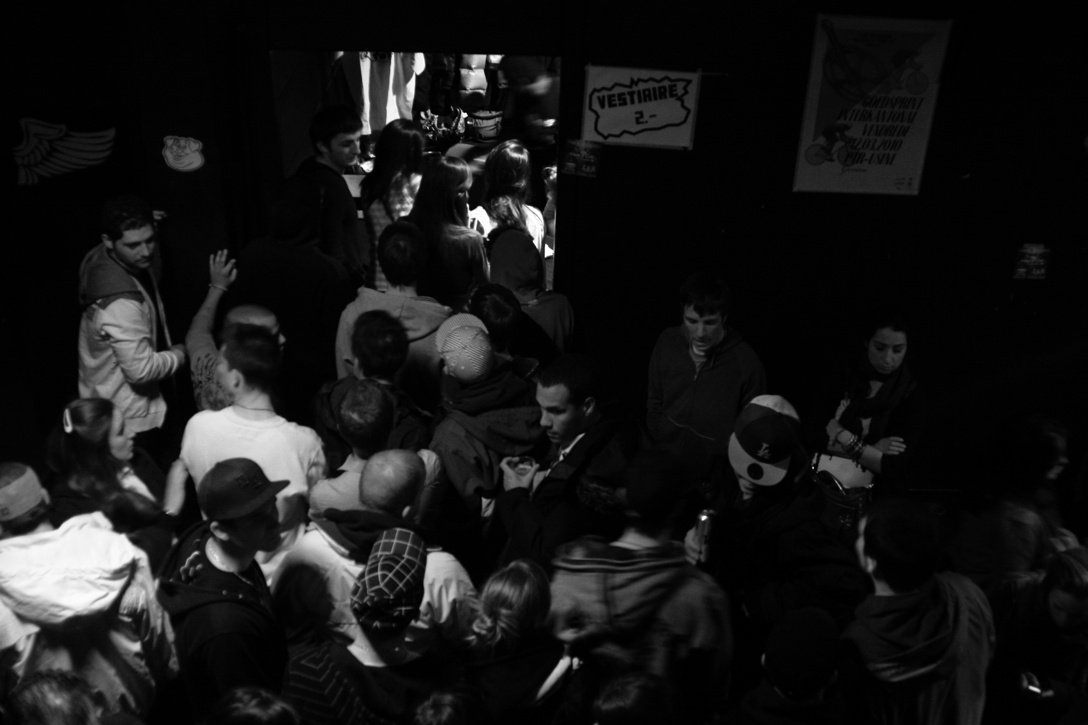 Rez